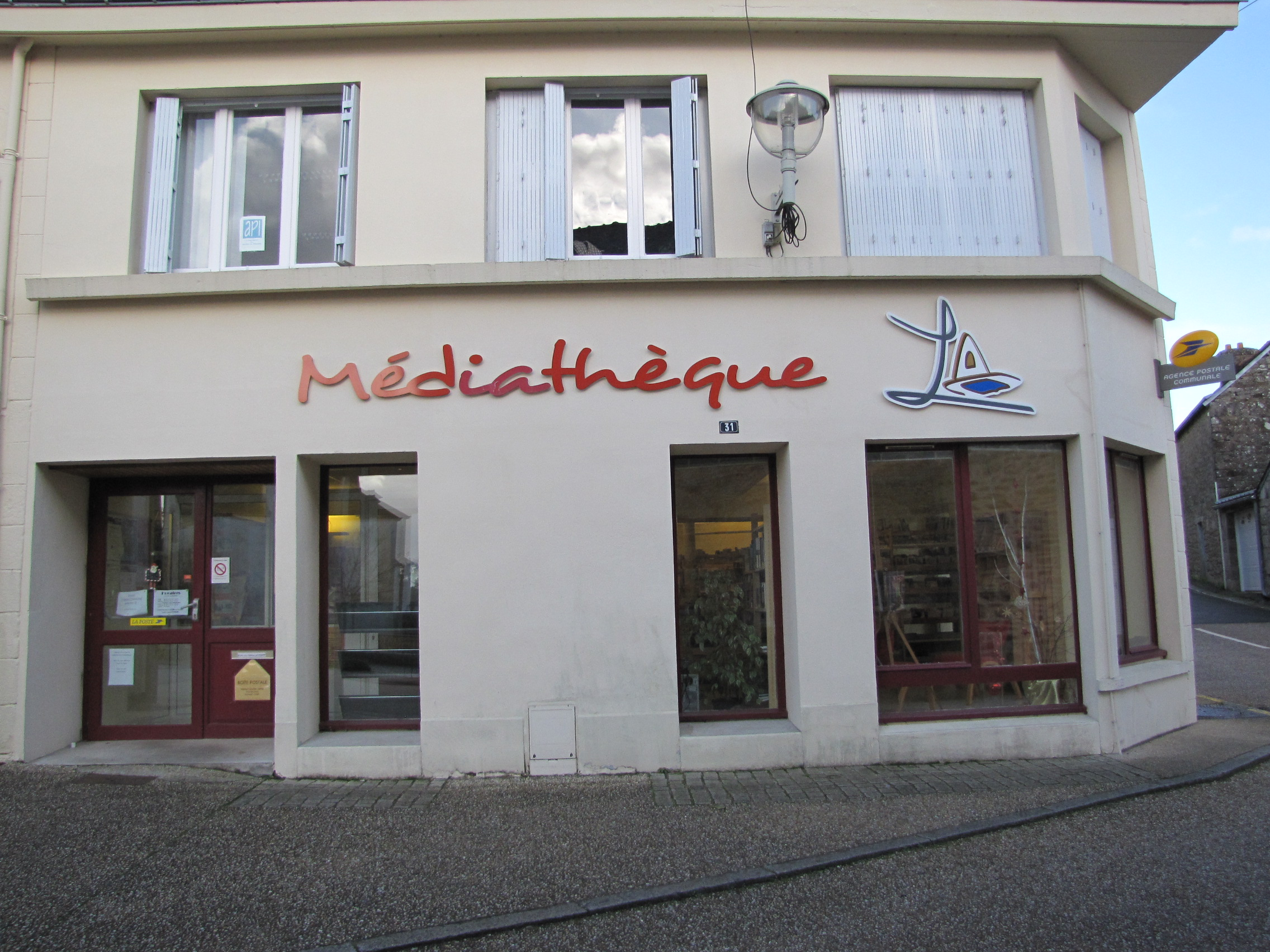 The media library of the municipality